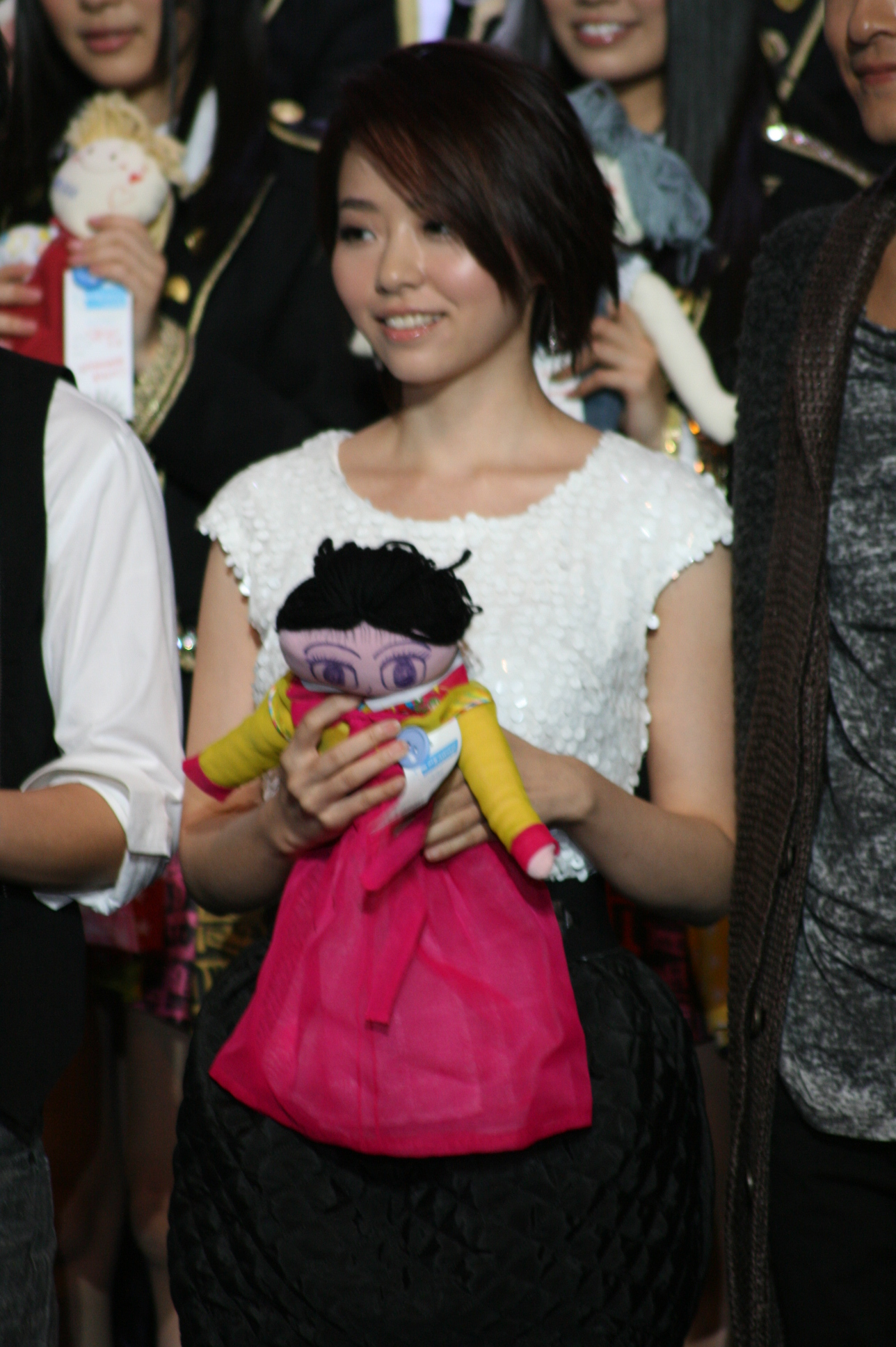 Zhang Liangying at the 2010 Asia Song Festival, Seoul, South Korea.